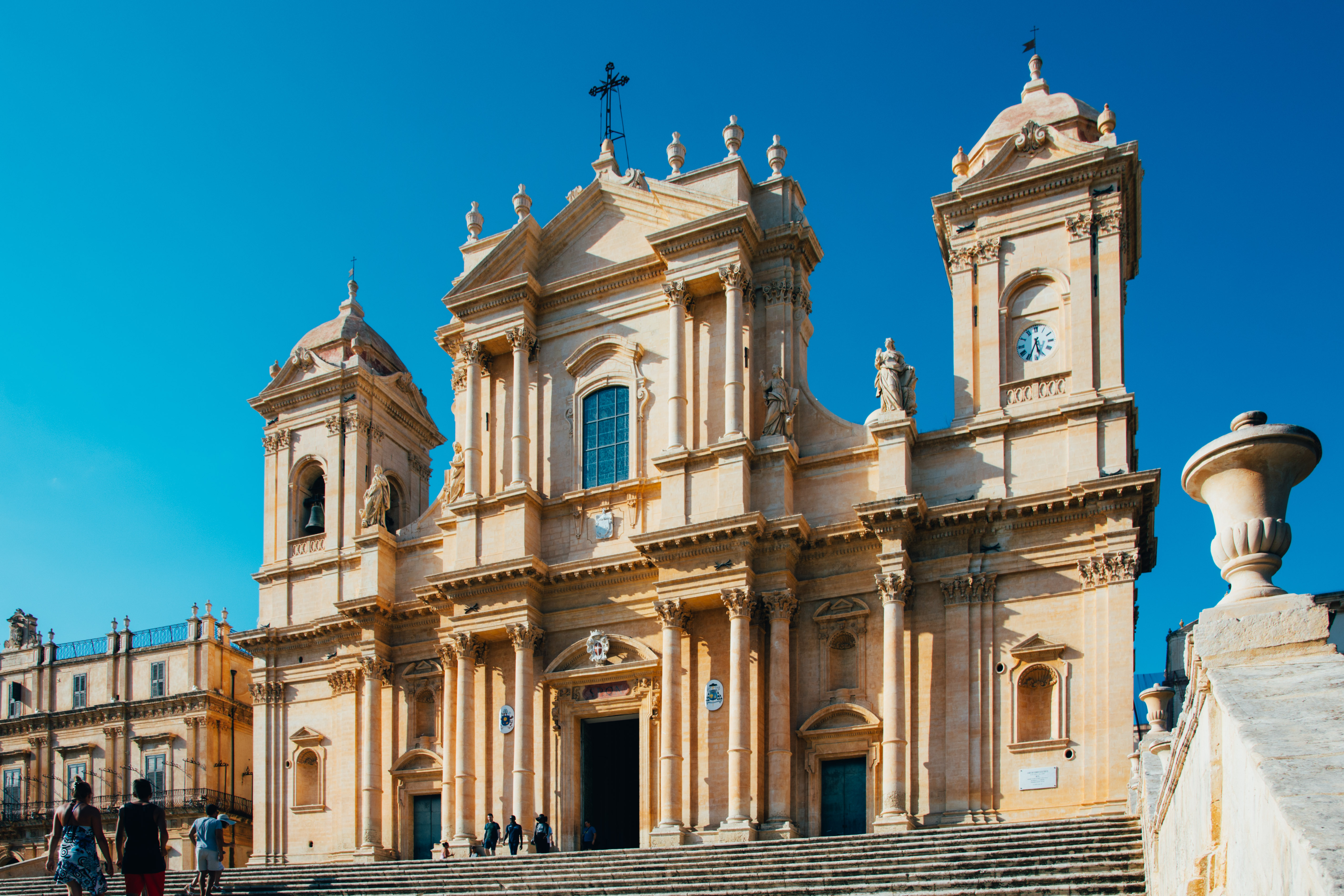 The rebuilt façade of the Noto Cathedral